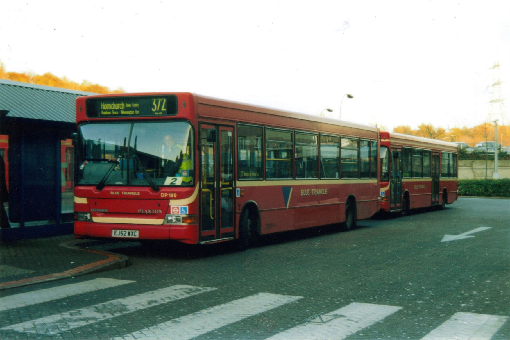 Two Dennis Dart SLF/Plaxton Pointer 2s of then-independent operator Blue Triangle, at Lakeside shopping centre in December 2005, on route 372. The company is now part of the Go-Ahead Group, and buses no longer wear this livery. The bus seen here at the front is DP189 (EJ52 WXC).